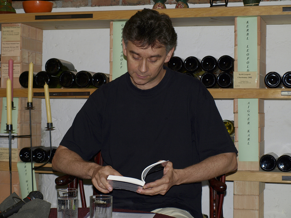 Private photograph, taken by my son, with my private camera. It shows me (Klaus Ebner) at a public presentation of my books in Klosterneuburg (Austria).